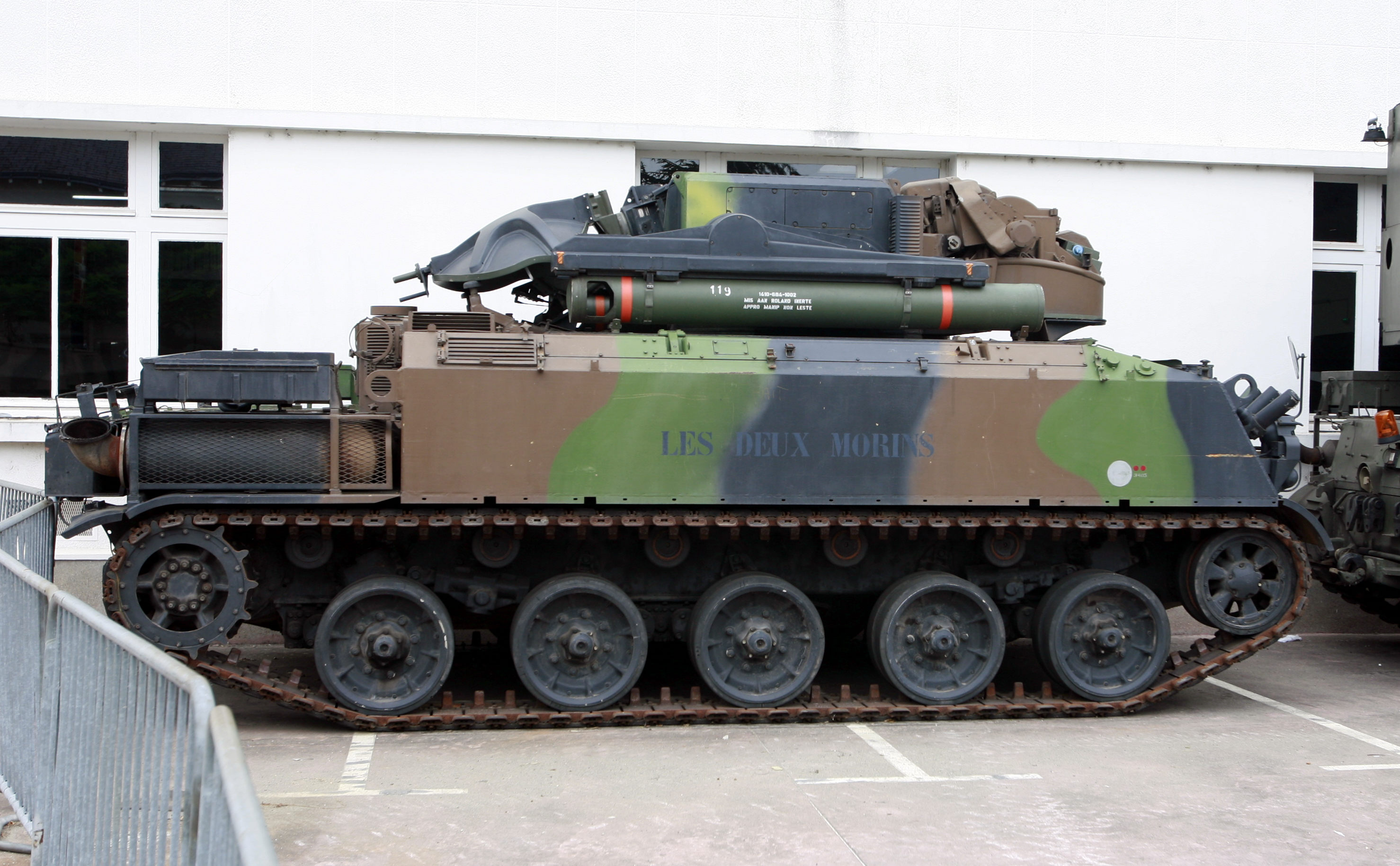 AMX-30. On display at Saumur Général Estienne museum.